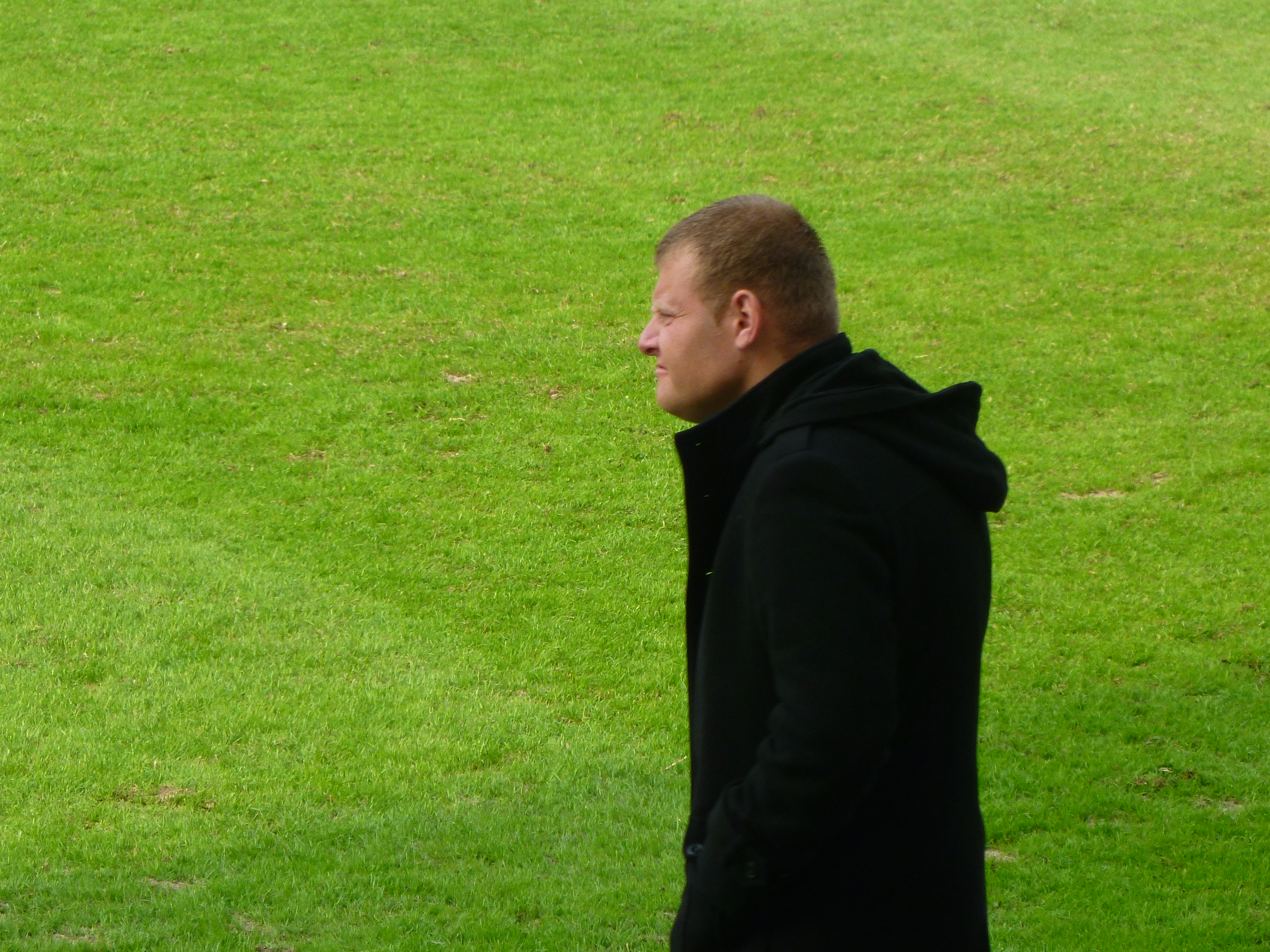 Josep Gombau (8 Jan 2012 Hong Kong First Division League, Rangers vs Kitchee, Mong Kok Stadium)